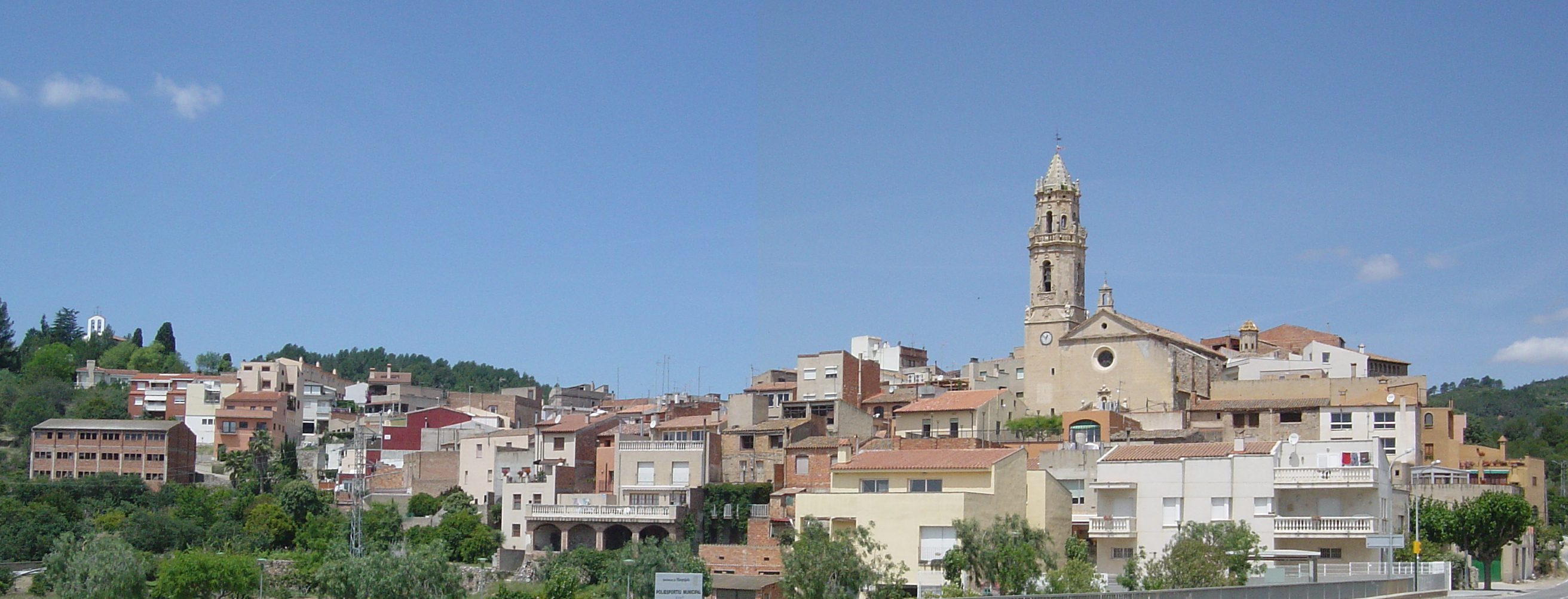 Maspujols